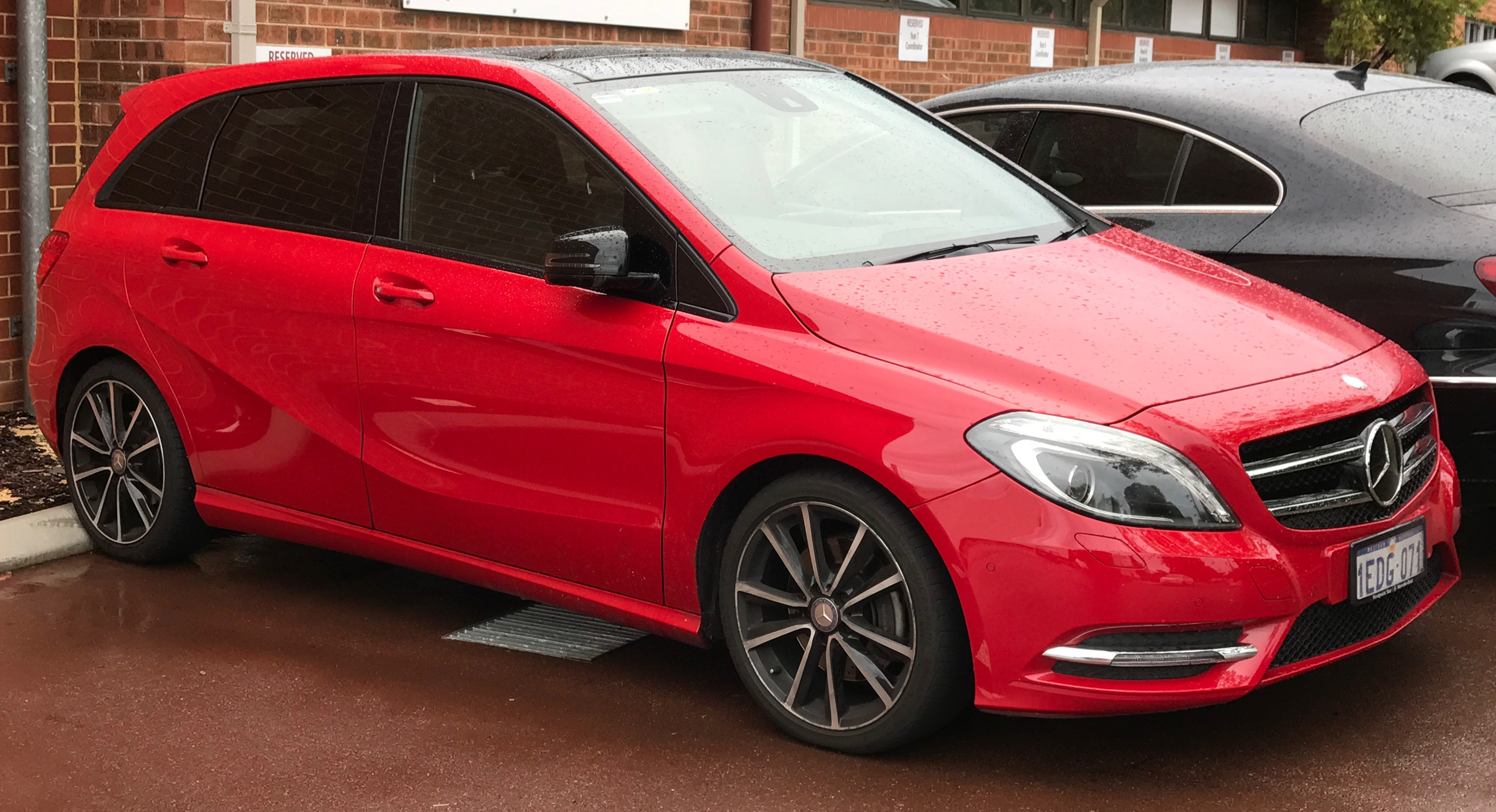 2013 Mercedes-Benz B 250 (W 246) hatchback. Photographed in Swanbourne, Western Australia, Australia.